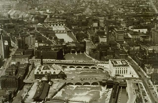 An aerial view of downtown Rochester, probably in the late 1930s, showing the Genesee River flowing through the center of the city. In the foreground, over the river, is the Court Street dam, followed by the Court Street, Broad Street, Main Street, Andrews Street and Central Avenue bridges. In the far left, the Genesee gorge is shown below the Upper Falls.